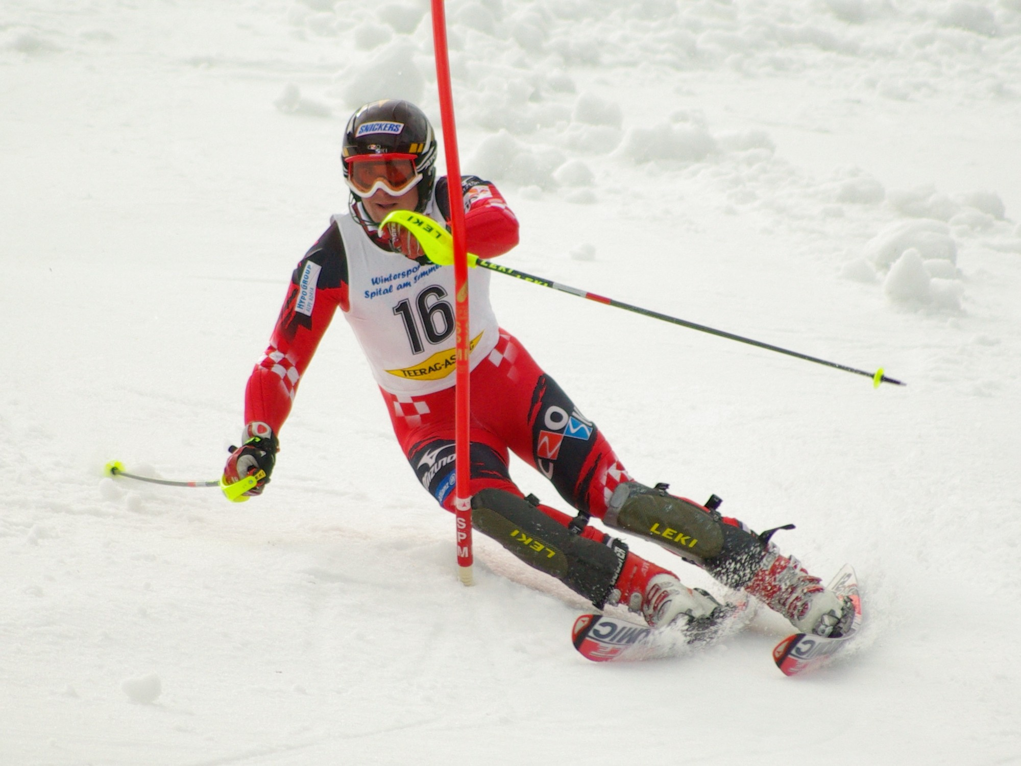 Croatian alpine skier Ivan Ratkić during the slalom run of the FIS super combined in Spital am Semmering, Austria on 11 March 2008.